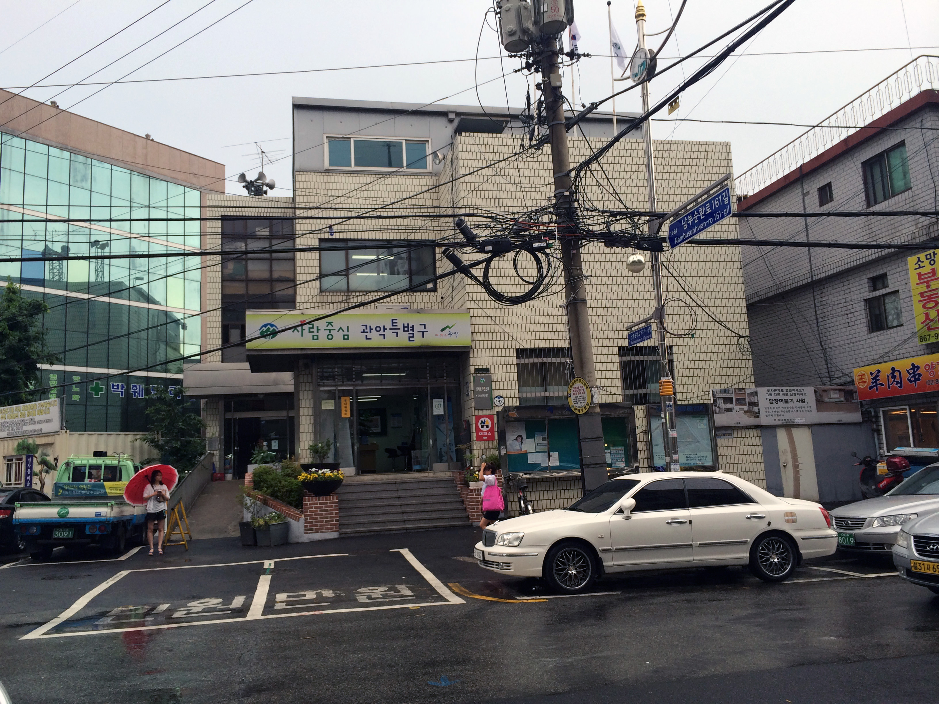 Sinsa-dong Comunity Service Center (Gwanak-gu)